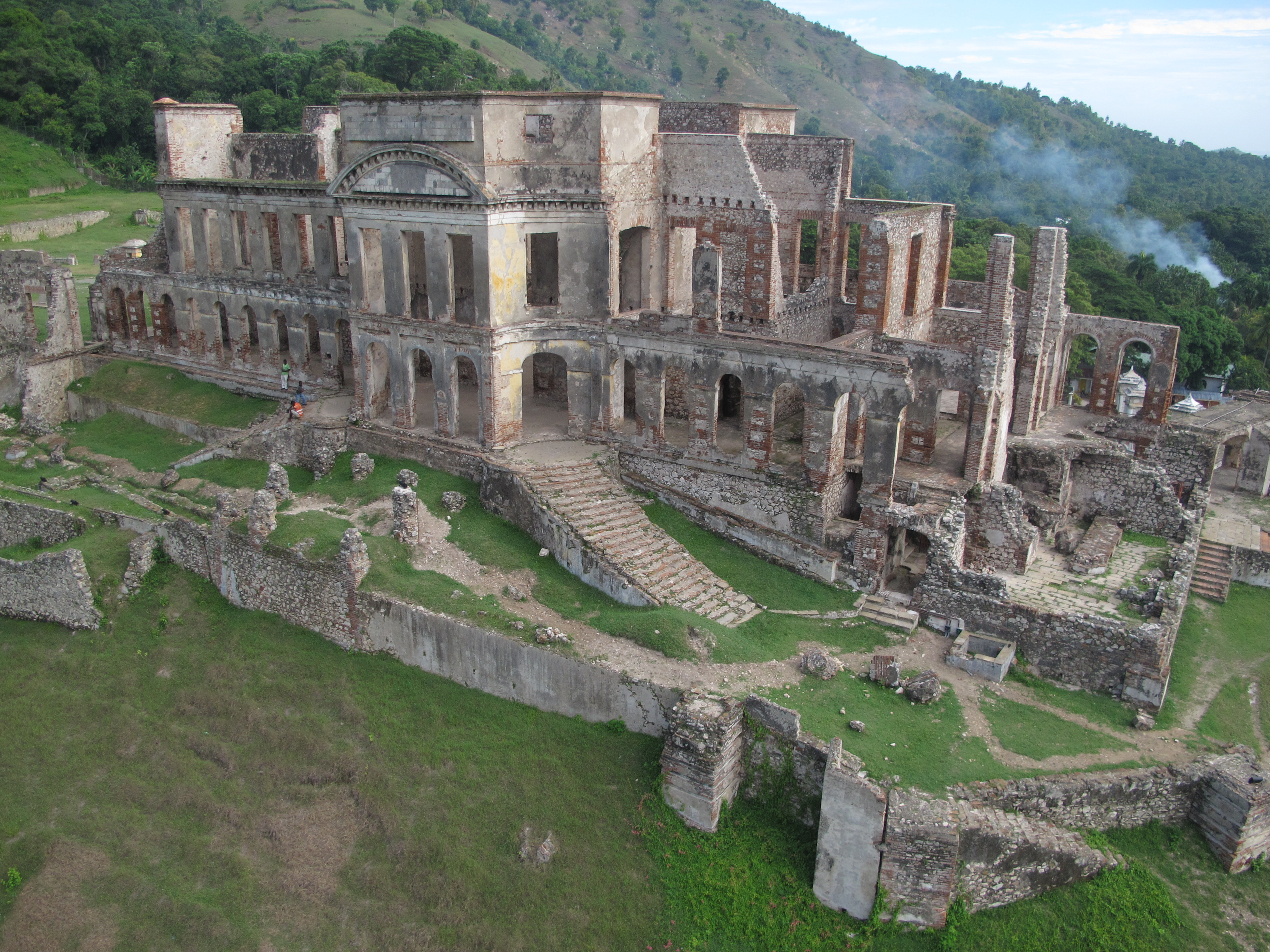 Ruins of the Sans-Souci Palace in Haiti, built by Henri Christophe between 1810 and 1813.